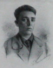 Vasil Ihchiev